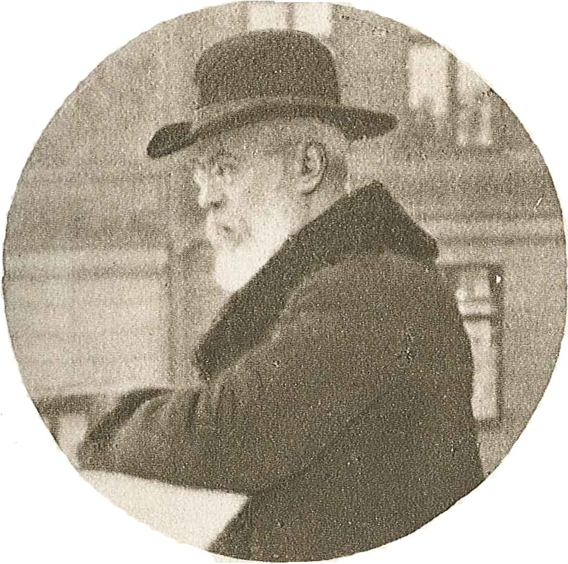 John Berg (1851-1931), Swedish physician and professor. Photo taken at the official celebration of Berg's 65th birthday.